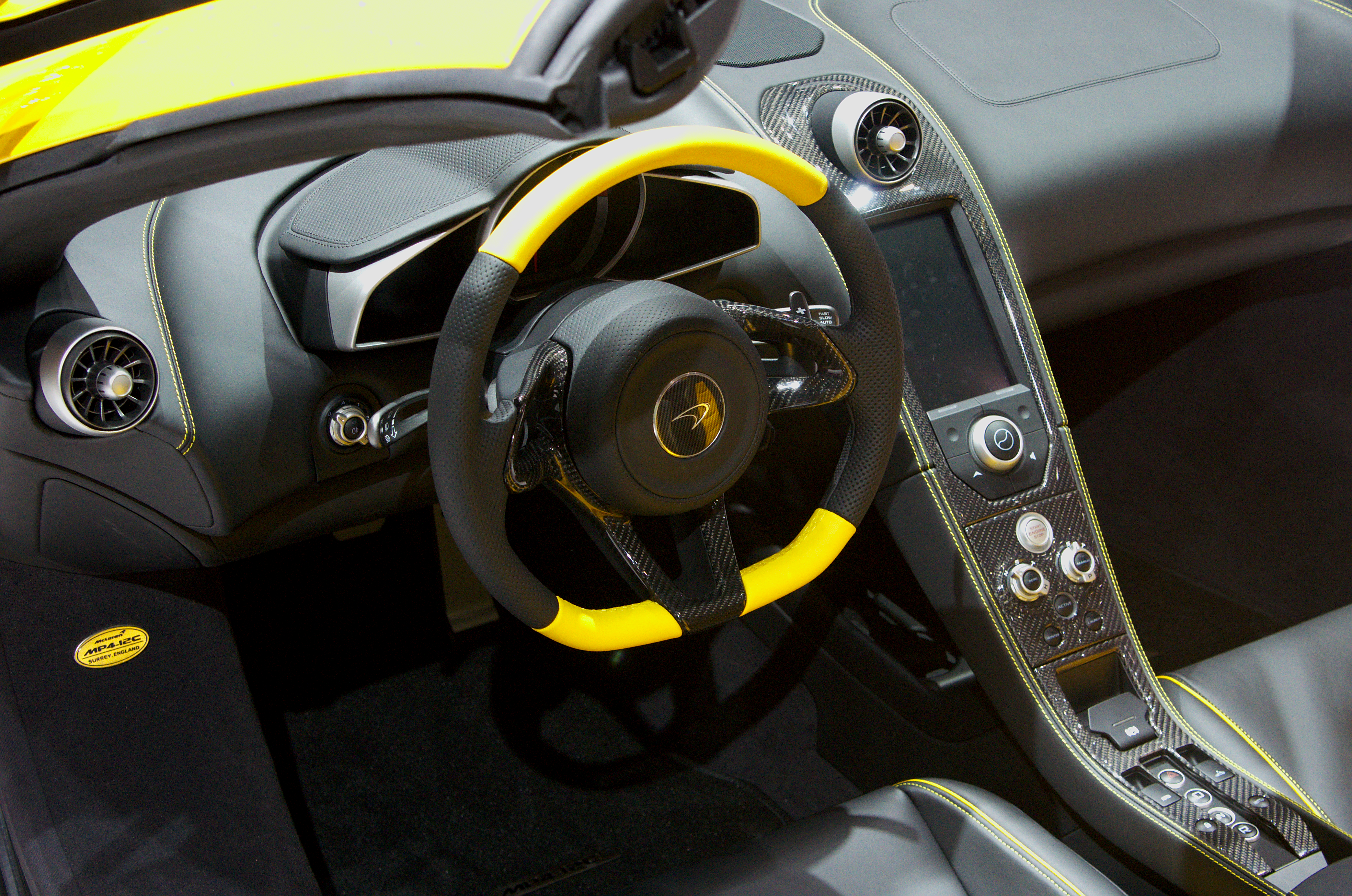 Geneva MotorShow 2013 - McLaren 12C Spider steering wheel